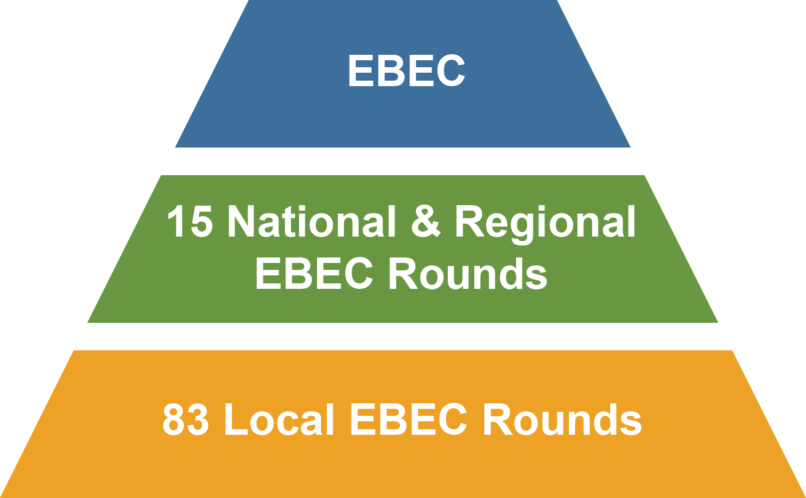 EBEC Pyramid.